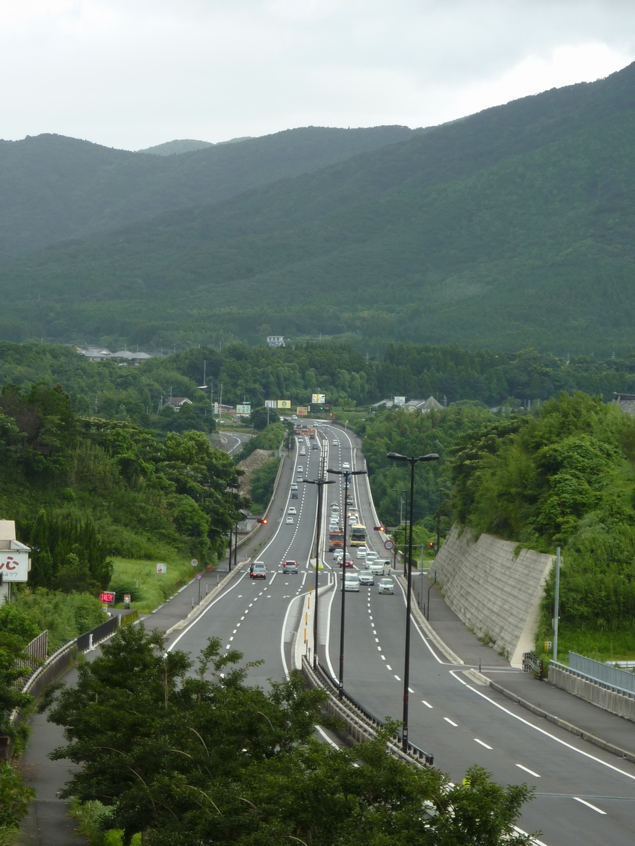 National Route 220 Kanoya Bypass - Kanoya Ohashi Bridge (Kanoya City, Kagoshima, Japan)